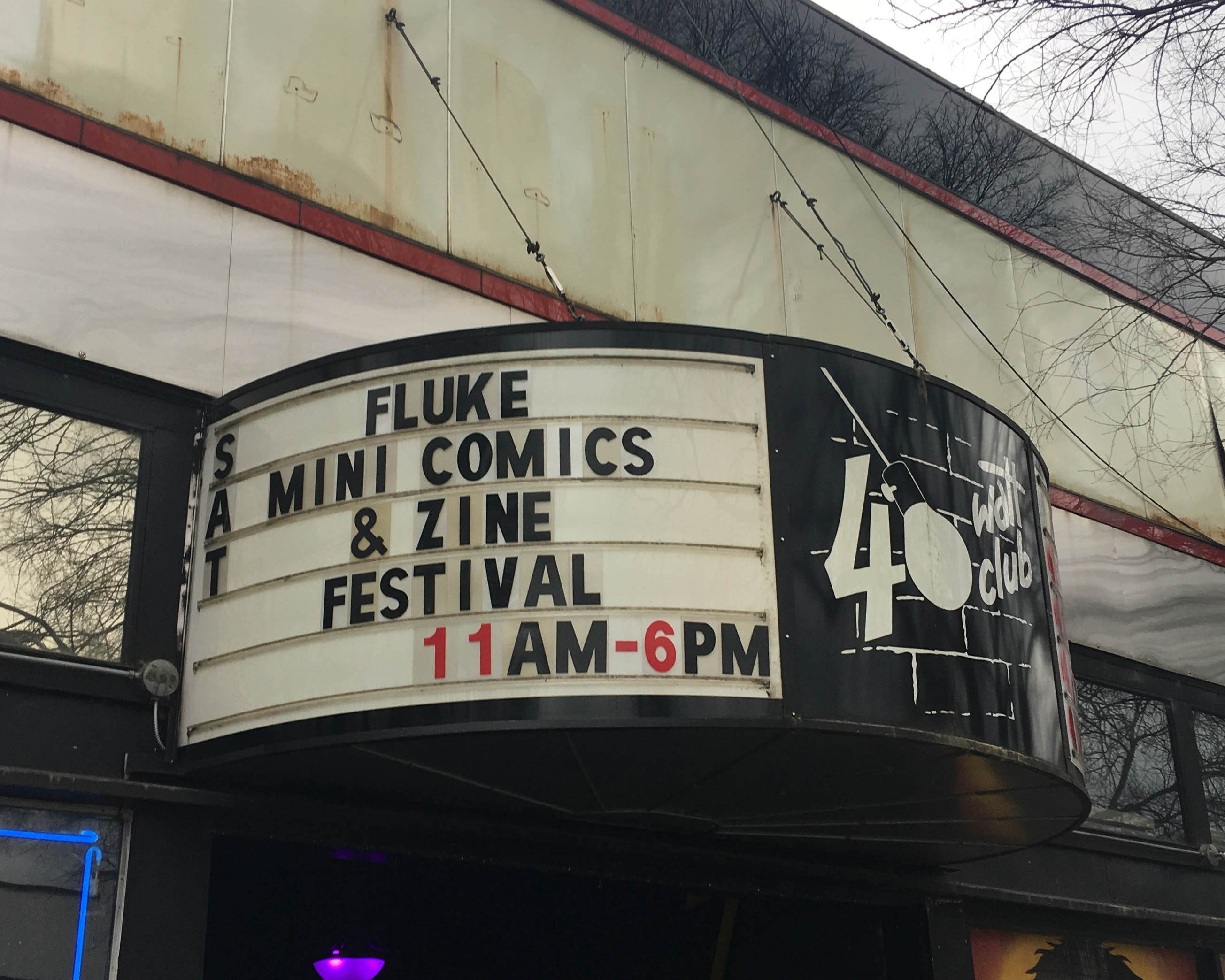 The banner outside the 40 Watt Club in Athens, Georgia in 2018, advertising the annual FLUKE Mini-Comics & Zine Festival.